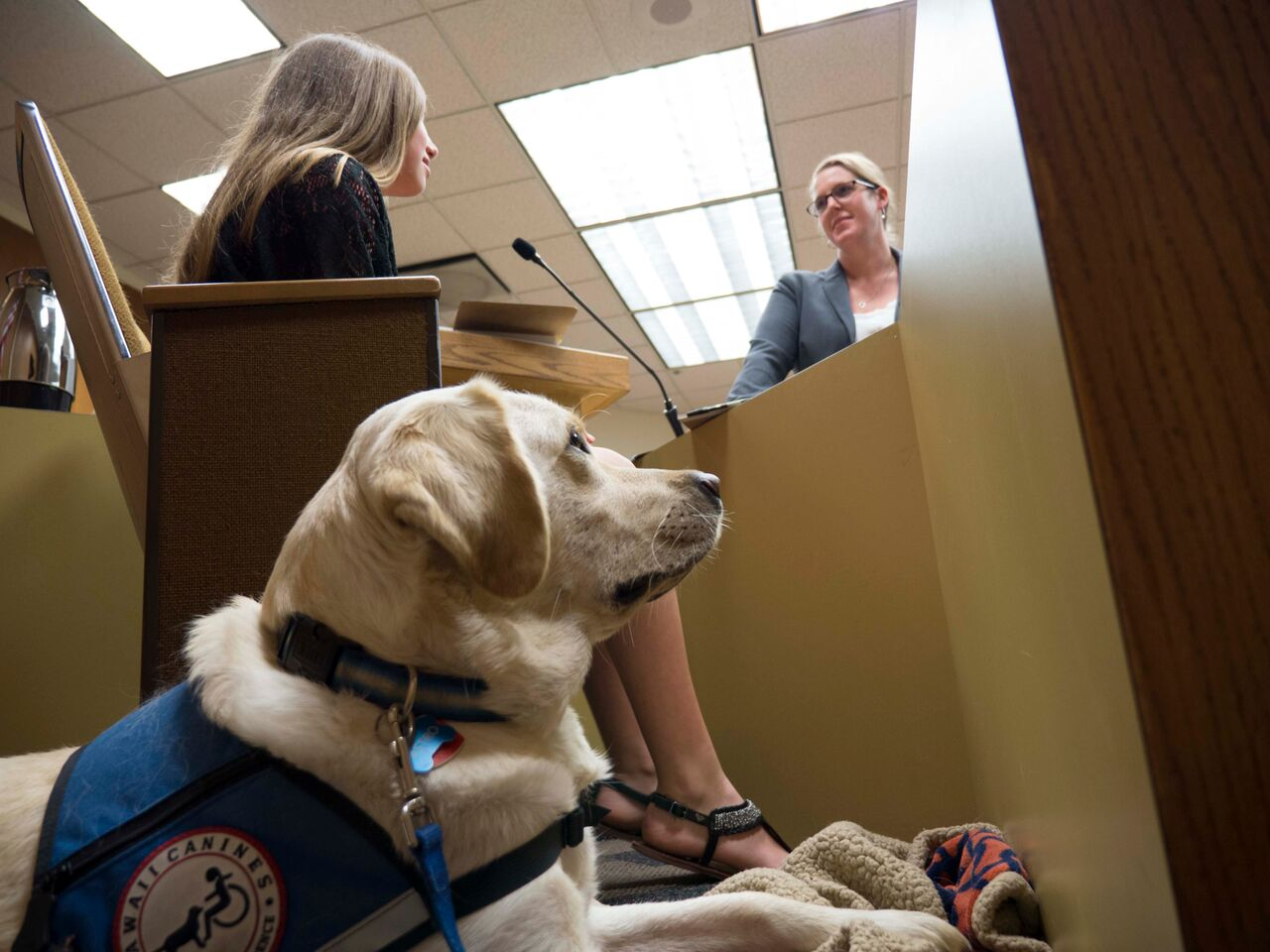 Astro the courthouse facility dog in court with a child witness who's face is not pictured.